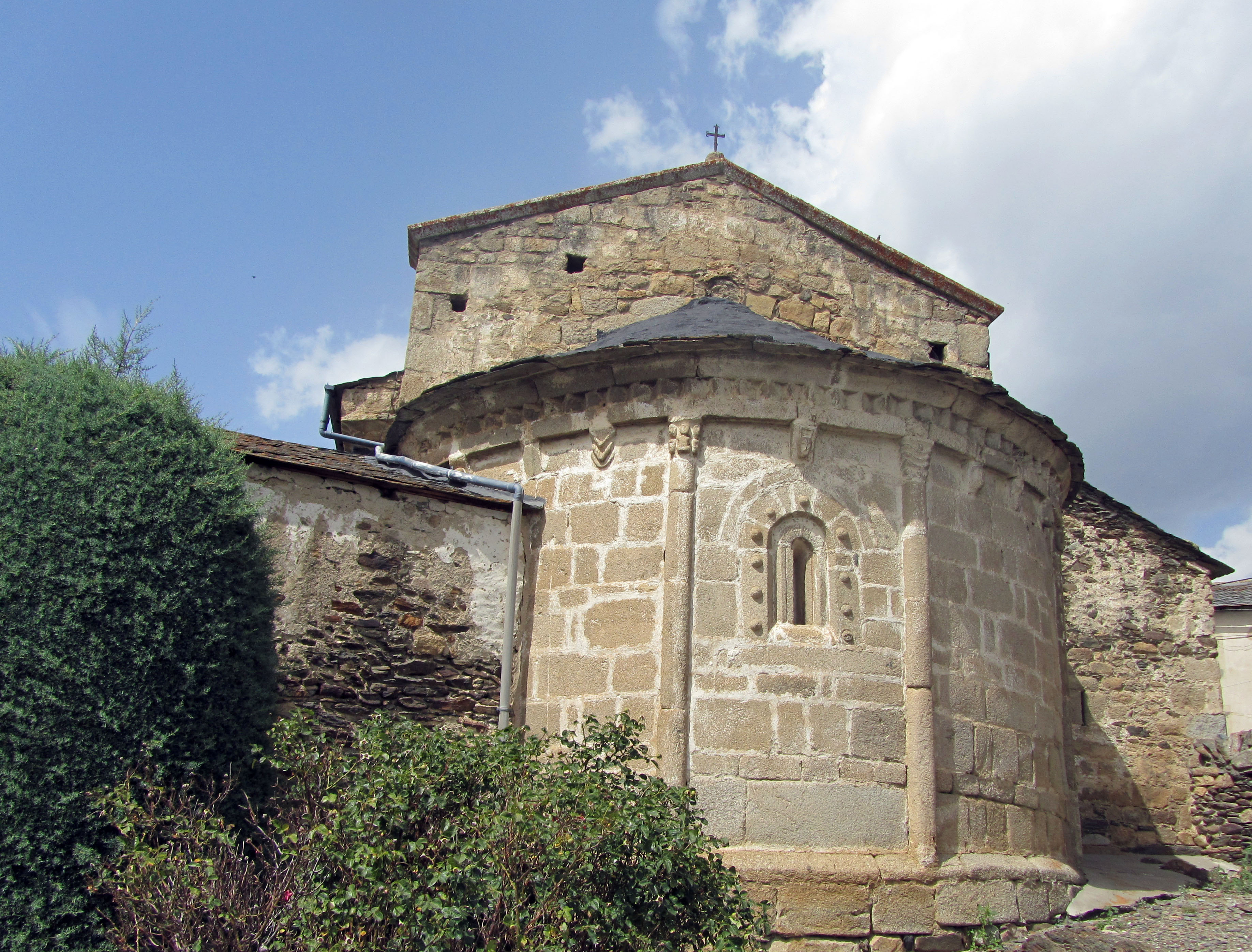 Sant Esteve de Guils church from Cerdanya (Catalonia, Spain) S.XII